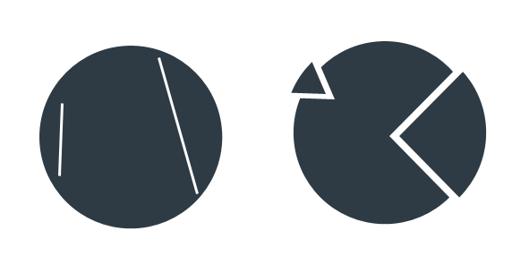 The Image illustrates dissociation in the field of psychology, according to the ideas of Donald Winnicott (1963) and Vamik Volkan (2001). It refers to Borderline Personality Disorder (BPD).